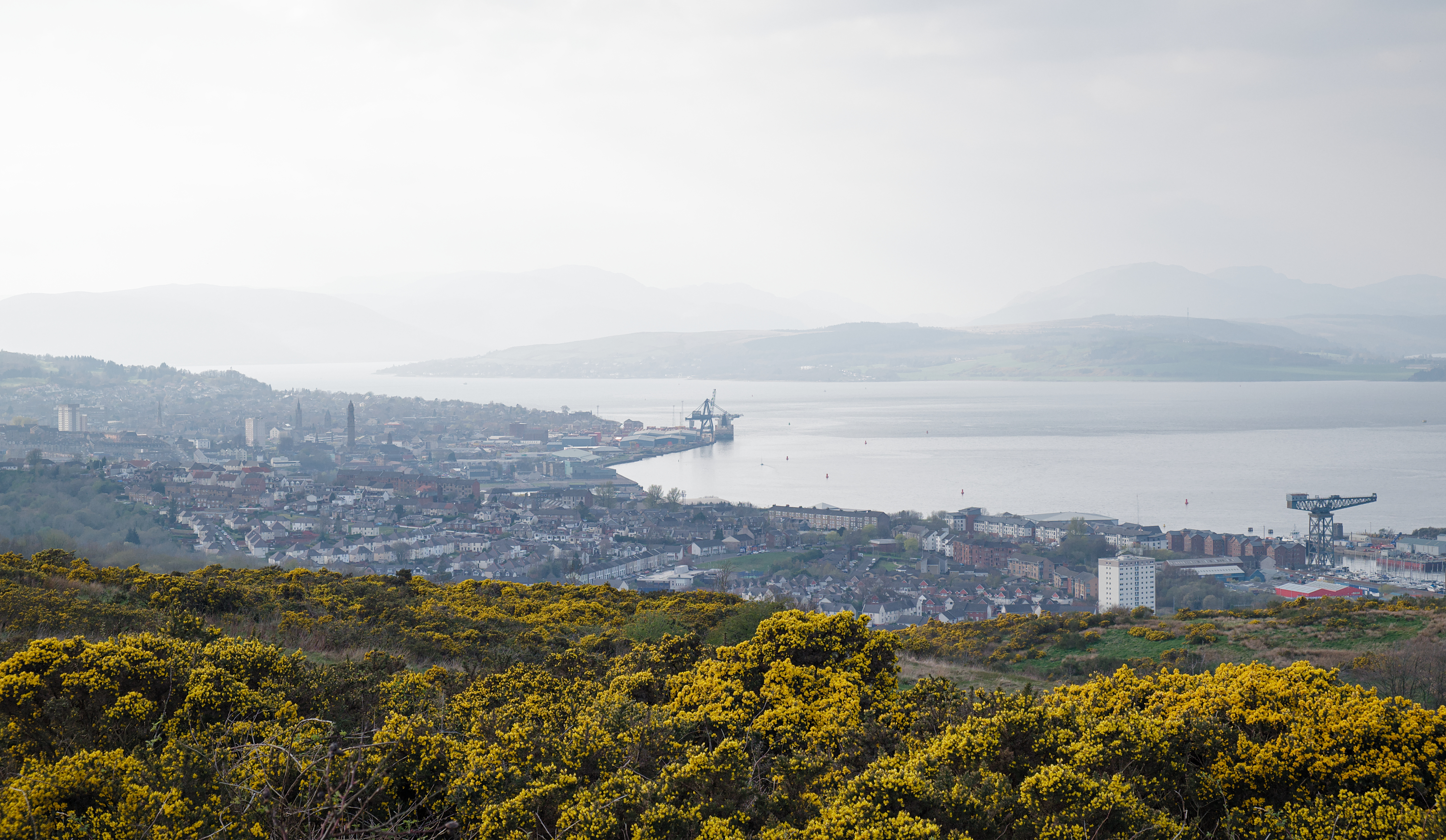 View of Greenock from Auchmountain Road (Inverclyde, Scotland)